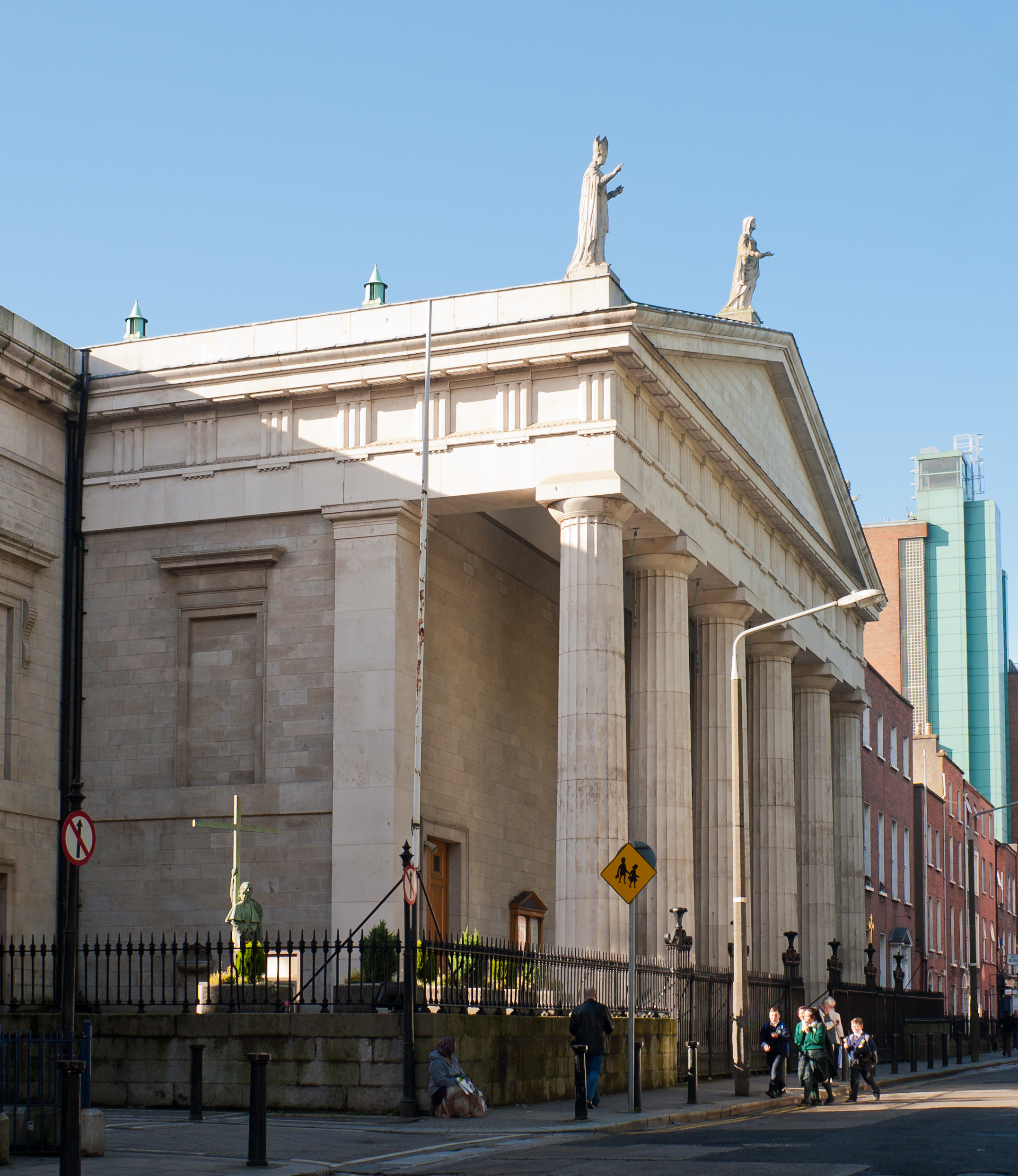 St. Mary's Pro-Cathedral as seen from Marlborough Street.